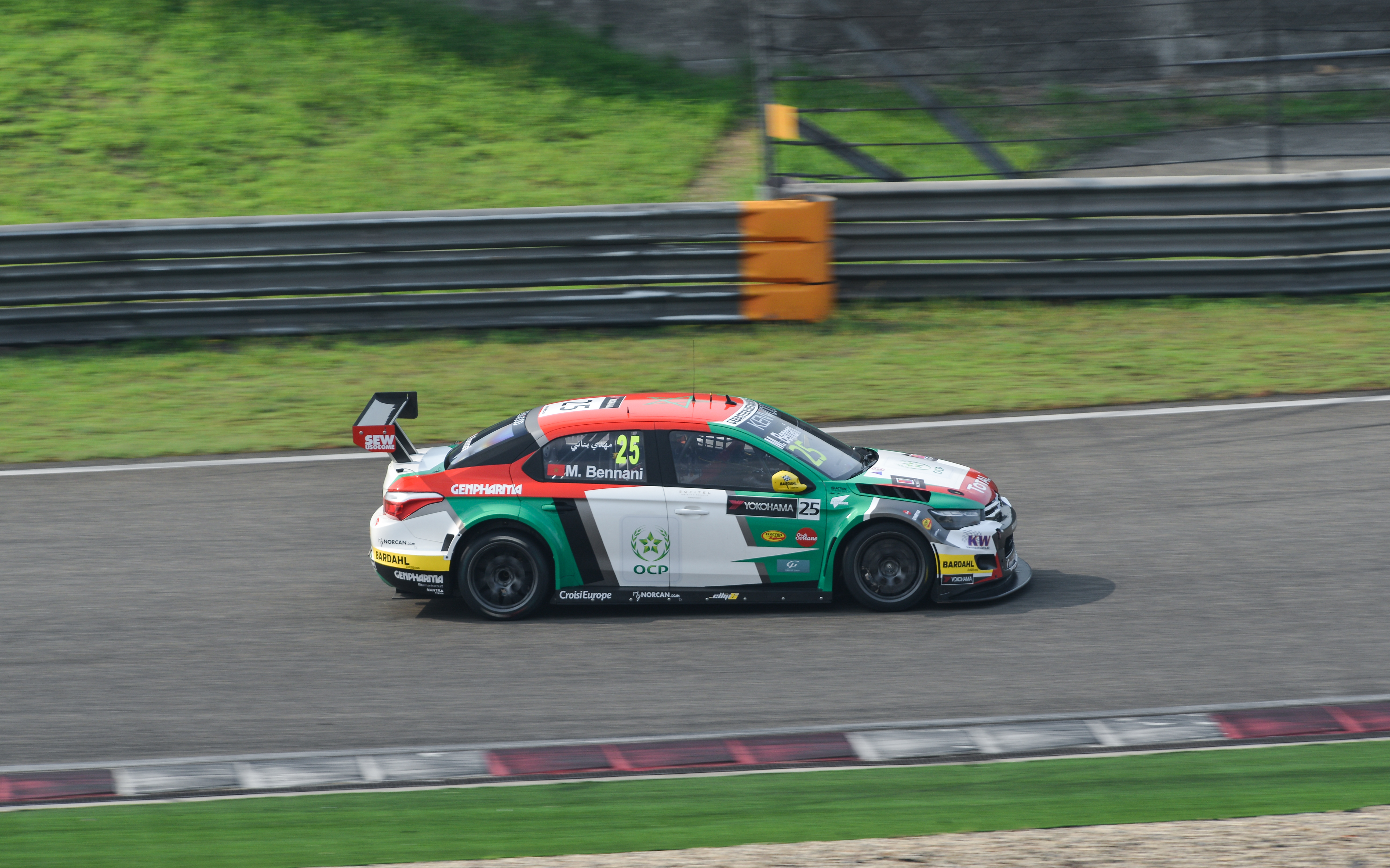 M.Bennani